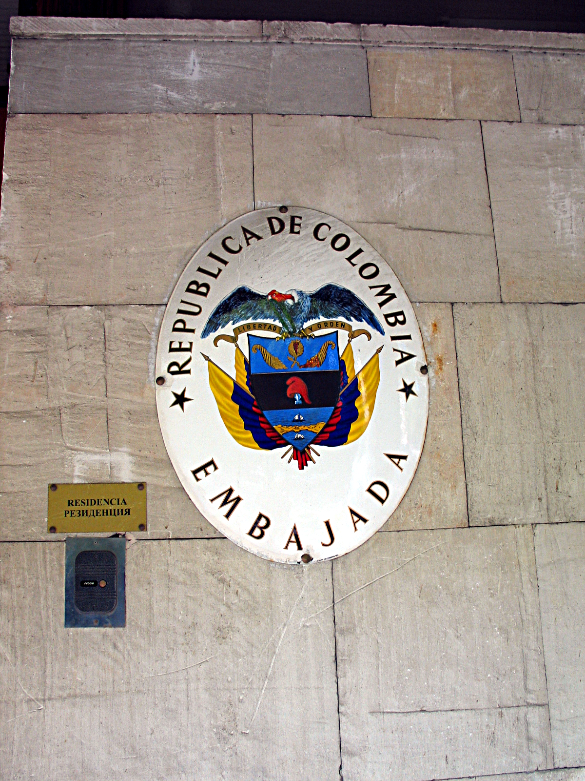 The plate on the Embassy of Columbia in Moscow.